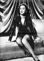 Pin-up photo of Hedy Lamarr for the Nov. 12, 1943 issue of Yank, the Army Weekly, a weekly U.S. Army magazine fully staffed by enlisted men.